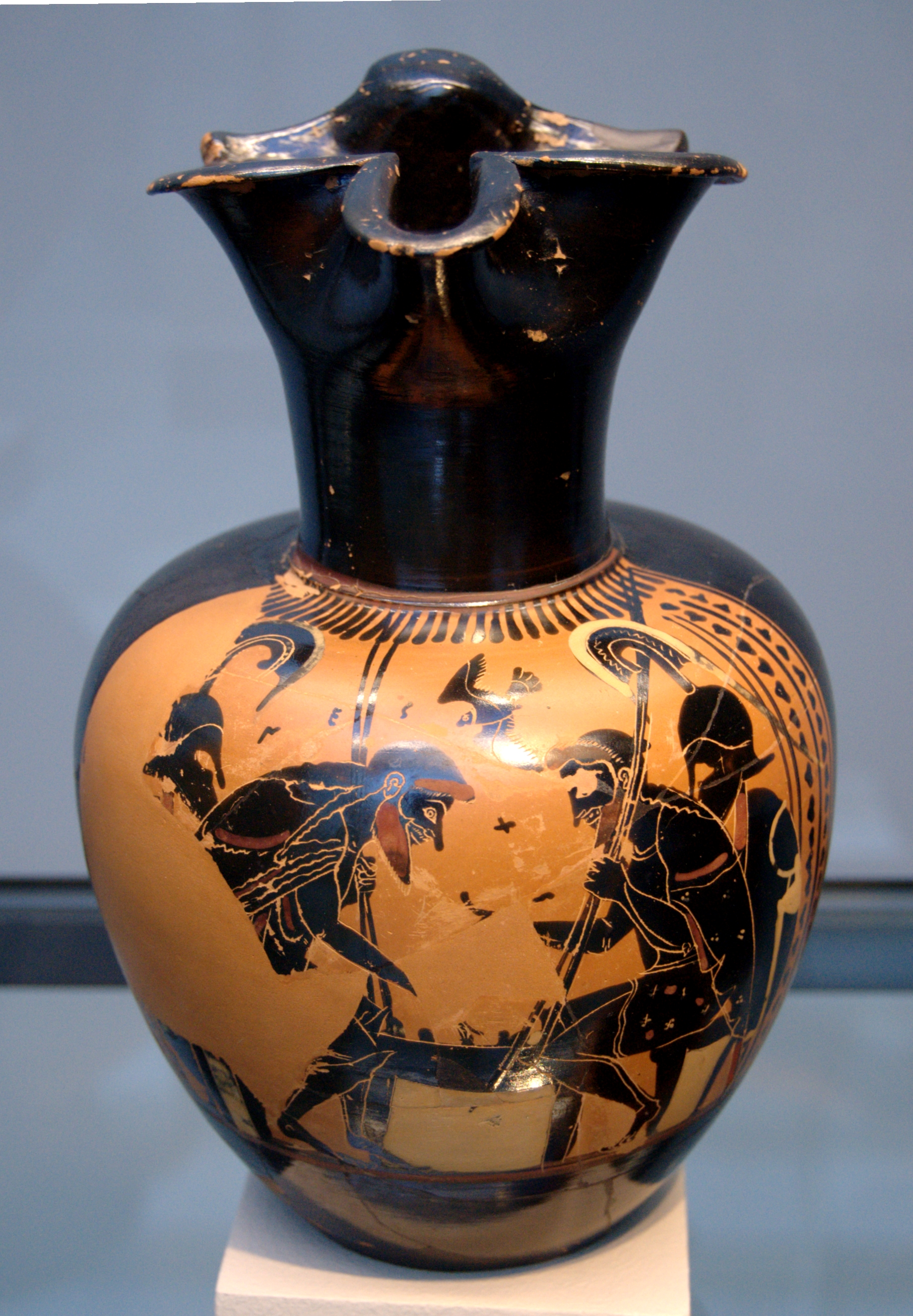 Achilles and Ajax playing a board game. Attic black-figure oenochoe.